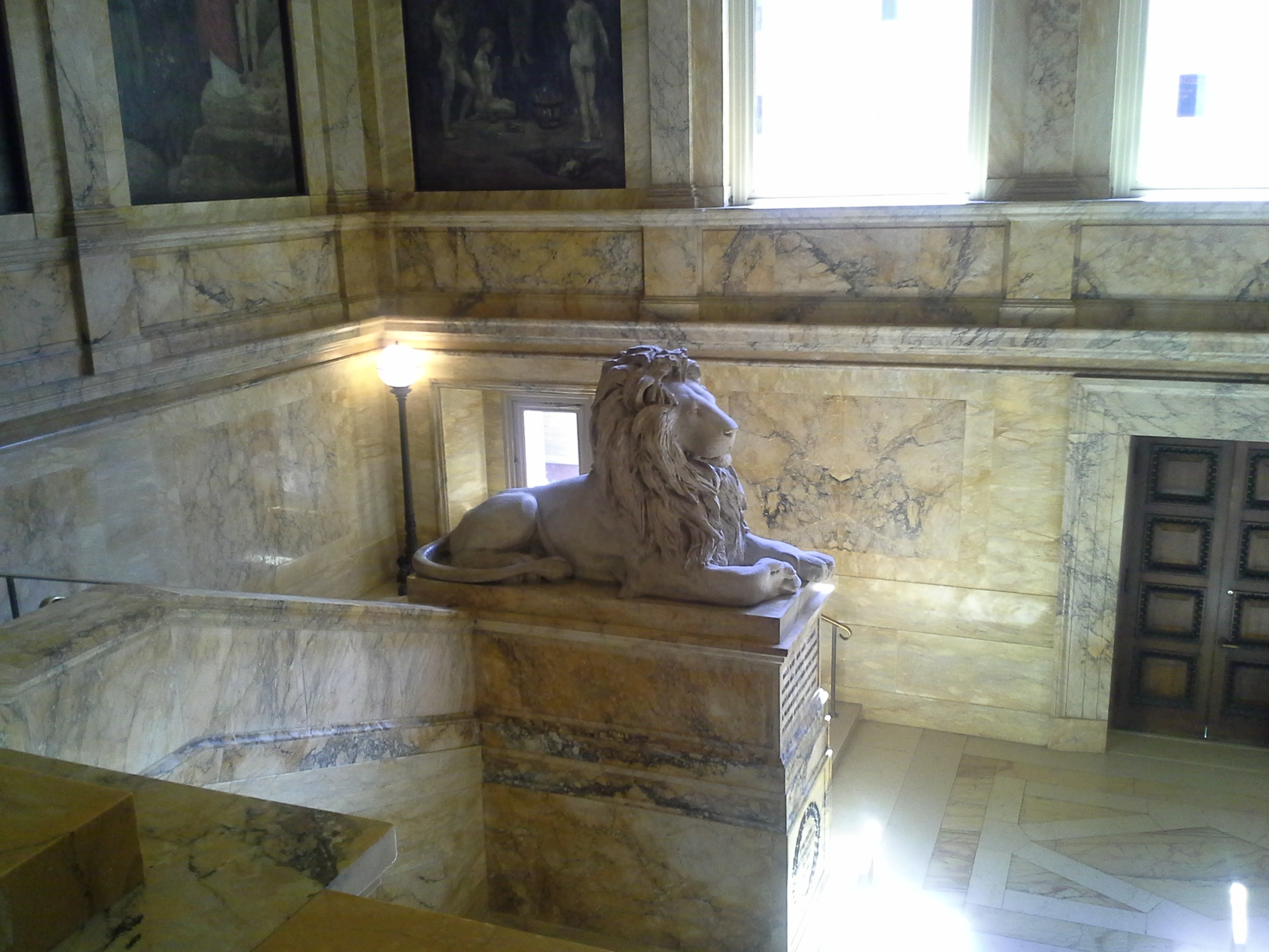 Looking down on the main stairs of the grand entrance stairway in the McKim building of the Boston Public Library at Copley Place in Boston Massachusetts